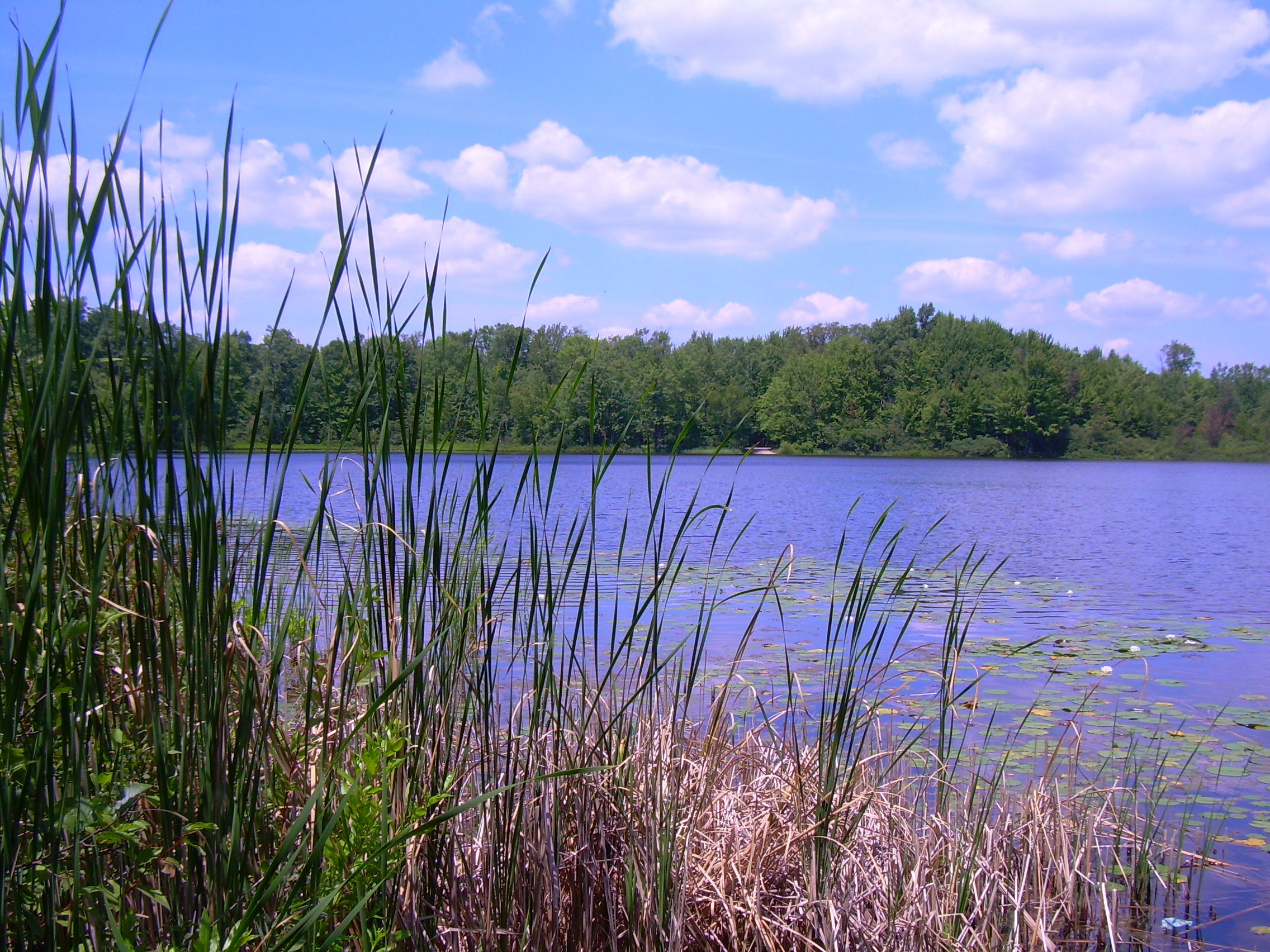 A picture of Benton Lake in Manistee National Forest - near the town of Baldwin.